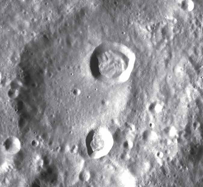 Part of the chart LAC-85